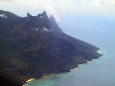 Tioman Island, Malaysia, by Andrew Lih